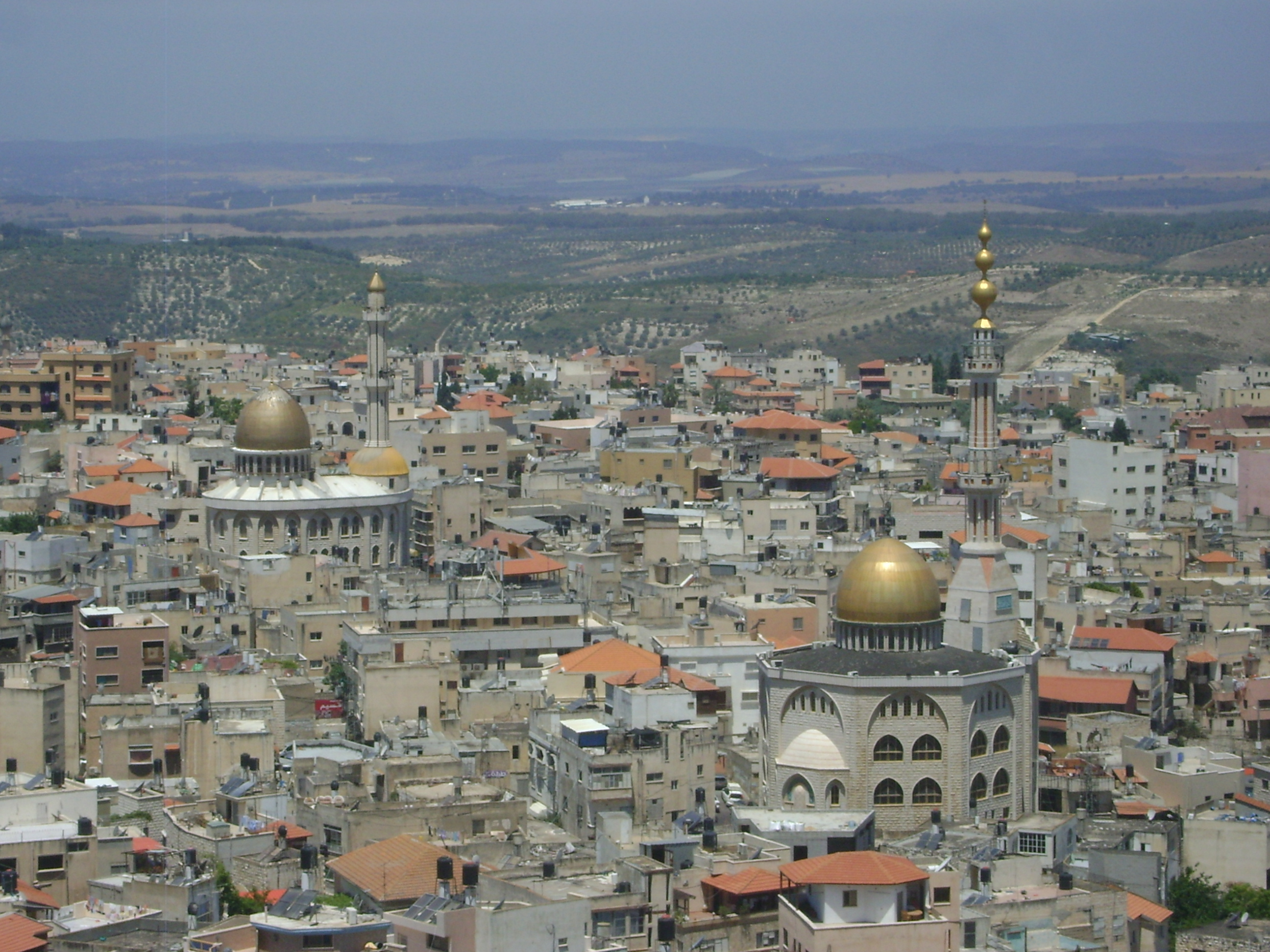 Umm Al-Fahm